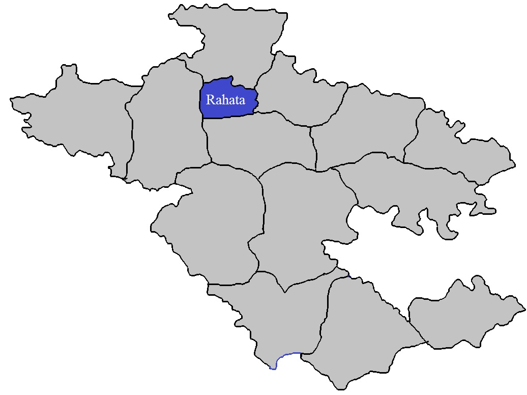 Rahata Tehsil in Ahmednagar District